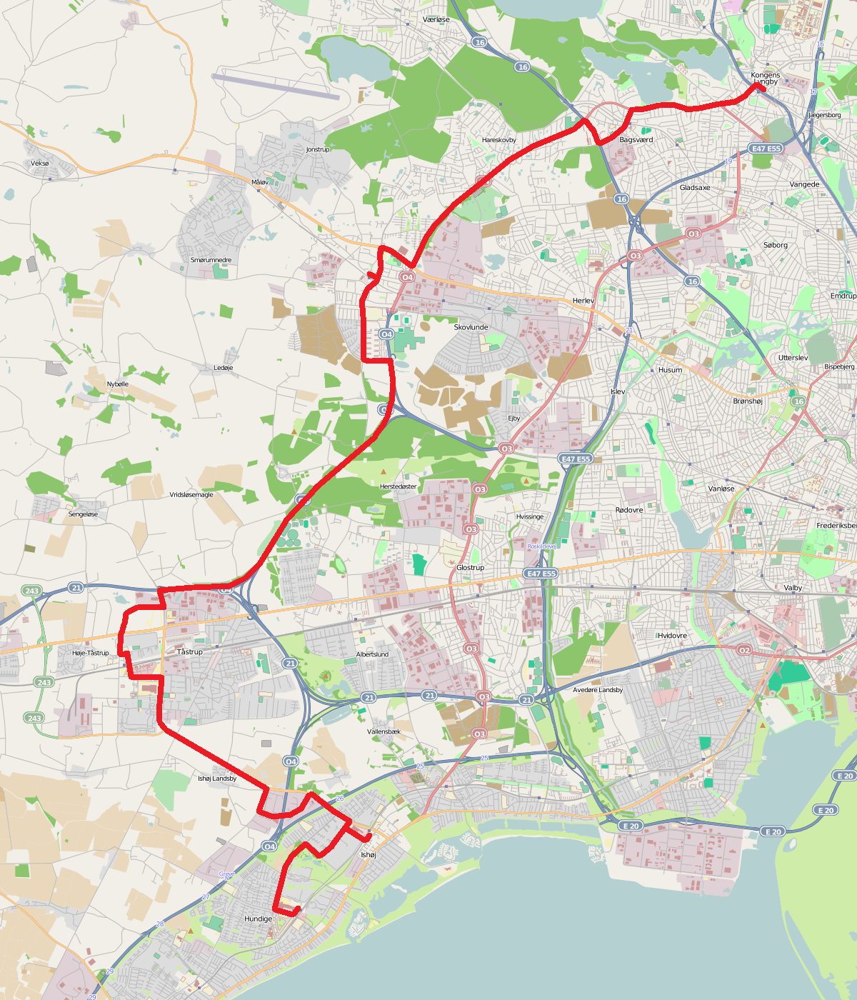 Map of Copenhagen bus line 400S between Lyngby Station and Hundige Station as of 27 March 2016.